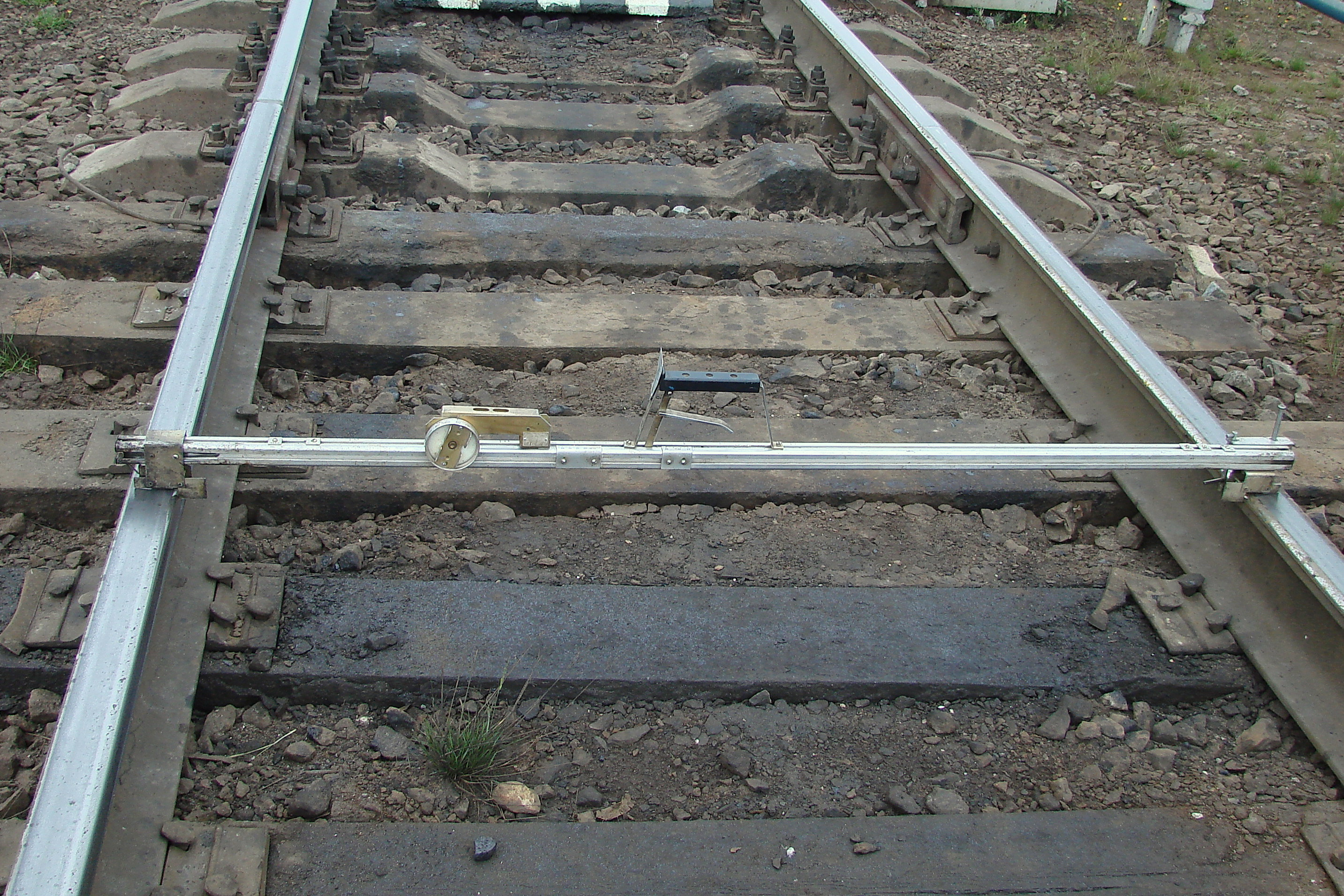 Russian Railways, rail service tool (directional pattern) on the rails